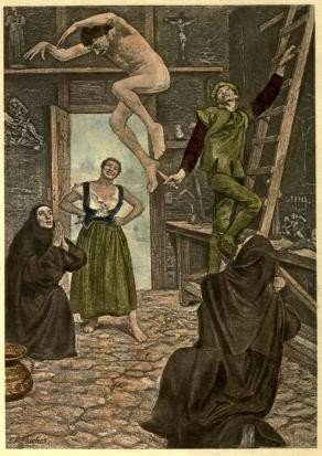 Watercolor artwork. Book illustration. For Giovanni Francesco Straparola's book.